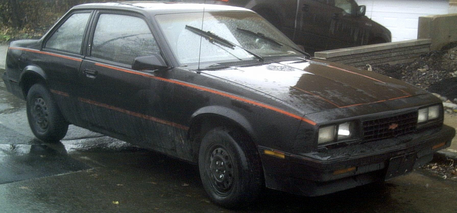 1984-1987 Chevrolet Cavalier coupe photographed in Montreal, Quebec, Canada.